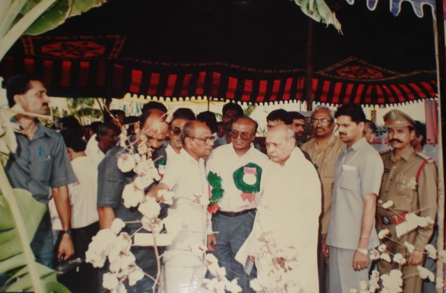 Kaderbad Ravindranath with P. V. Narasimha Rao Hon. Prime Minister of India , while releasing Narasimha cotton seed to farmers at Nandyal